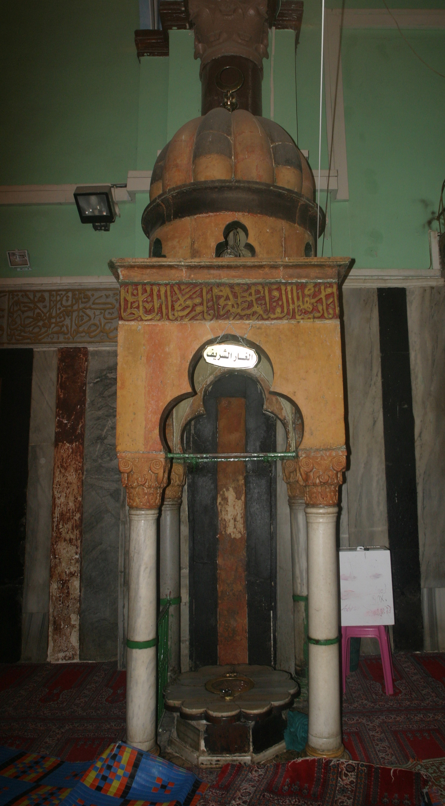 This canopy in the mosque at the Cave of the Patriarchs in Hebron covers a grate where visitors can look down into a 40-foot shaft to the ground level of the cave where Abraham and Sarah are buried.